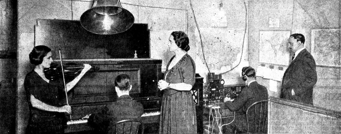 Original caption: "Broadcasting Station 8XB and later WMH, the first station specifically designed and operated for the express commercial purpose of broadcasting useful and entertainment matter for the benefit of the Radio public of the United States. It was conceived in 1919 and operated by the Precision Equipment company, Cincinnati, Ohio, now out of existence. The individuals in the photo are: at the piano, Luther J. Davis and two artists, Miss Dorothy Richards, violinist, and Miss Margaret Spaulding, soprano. Standing at the extreme right of the photo is John L. Gates, former president of the Precision Equipment company. Seated before the broadcasting equipment and operating it is Lieut. Harry P. Breckel, author of this article. WMH, on the air once more, is now operated by Ainsworth Gates company, Cincinnati."